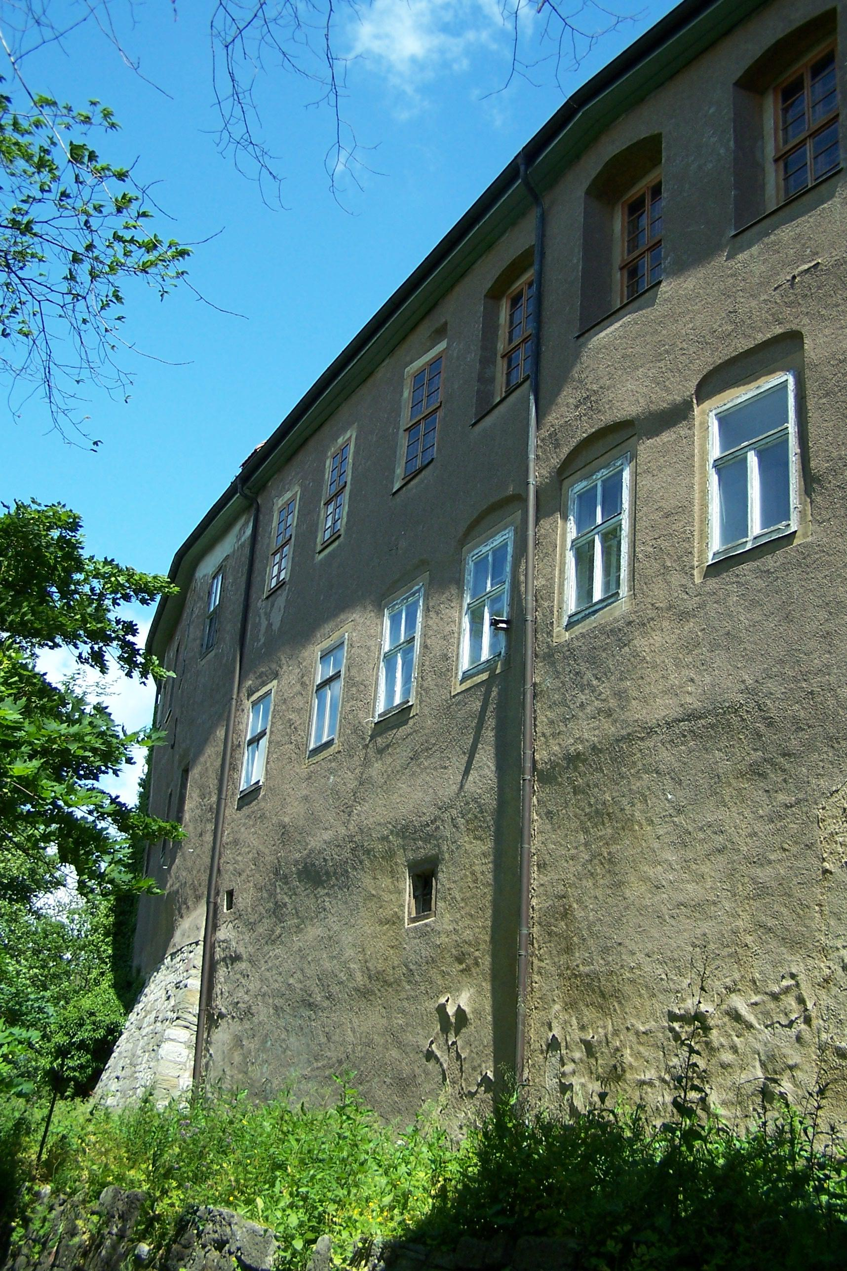 Tenneberg castle, from Southwest.